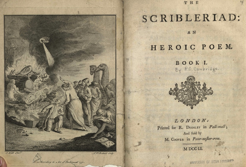 Richard Owen Cambridge The Scribleriad. An Heroic Poem. In Six Books. Frontispiece. Book I